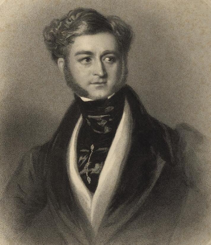 A portrait from the Welsh Portrait Collection at the National Library of Wales. Depicted person: Robert Herbert, 12th Earl of Pembroke – British nobleman